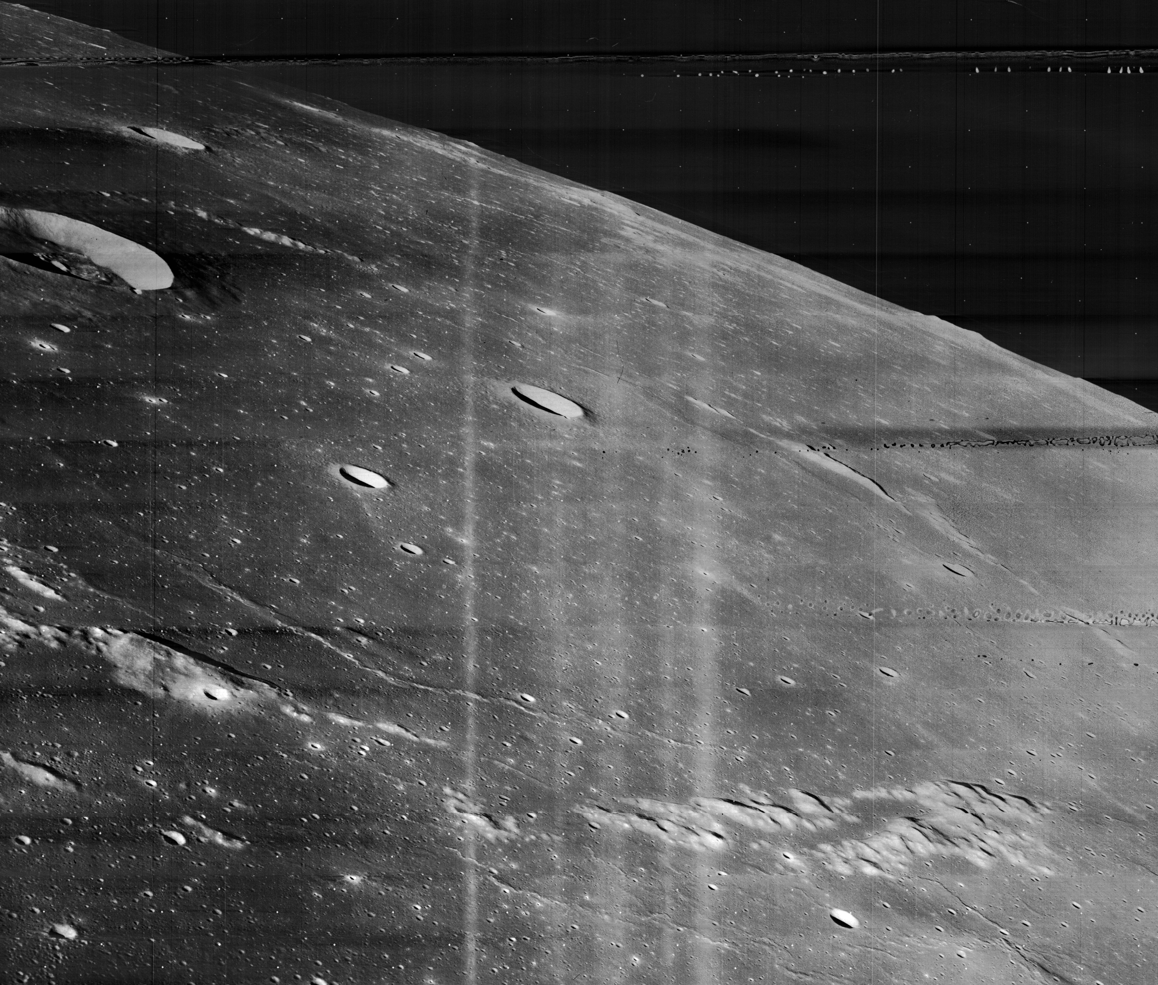 Oblique view of Flamsteed P crater (large ring of hills) and Flamsteed crater itself (upper left, at edge) on the moon, facing southwest. Flamsteed D and K are small craters within the ring of hills, and Flamsteed C is in the upper left outside the ring. The landing site of Surveyor 1 is also within the ring.